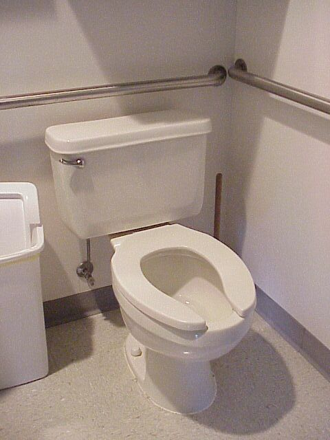 Handicapped toilet